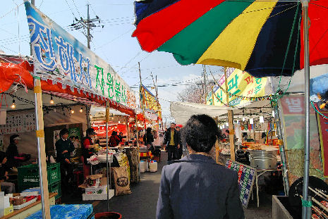 At fairs, festivals and markets it is common to see rows and rows of tents set up. Street vendors sell everything from underwear, jewelry, clothing, household goods, and food in these tents.